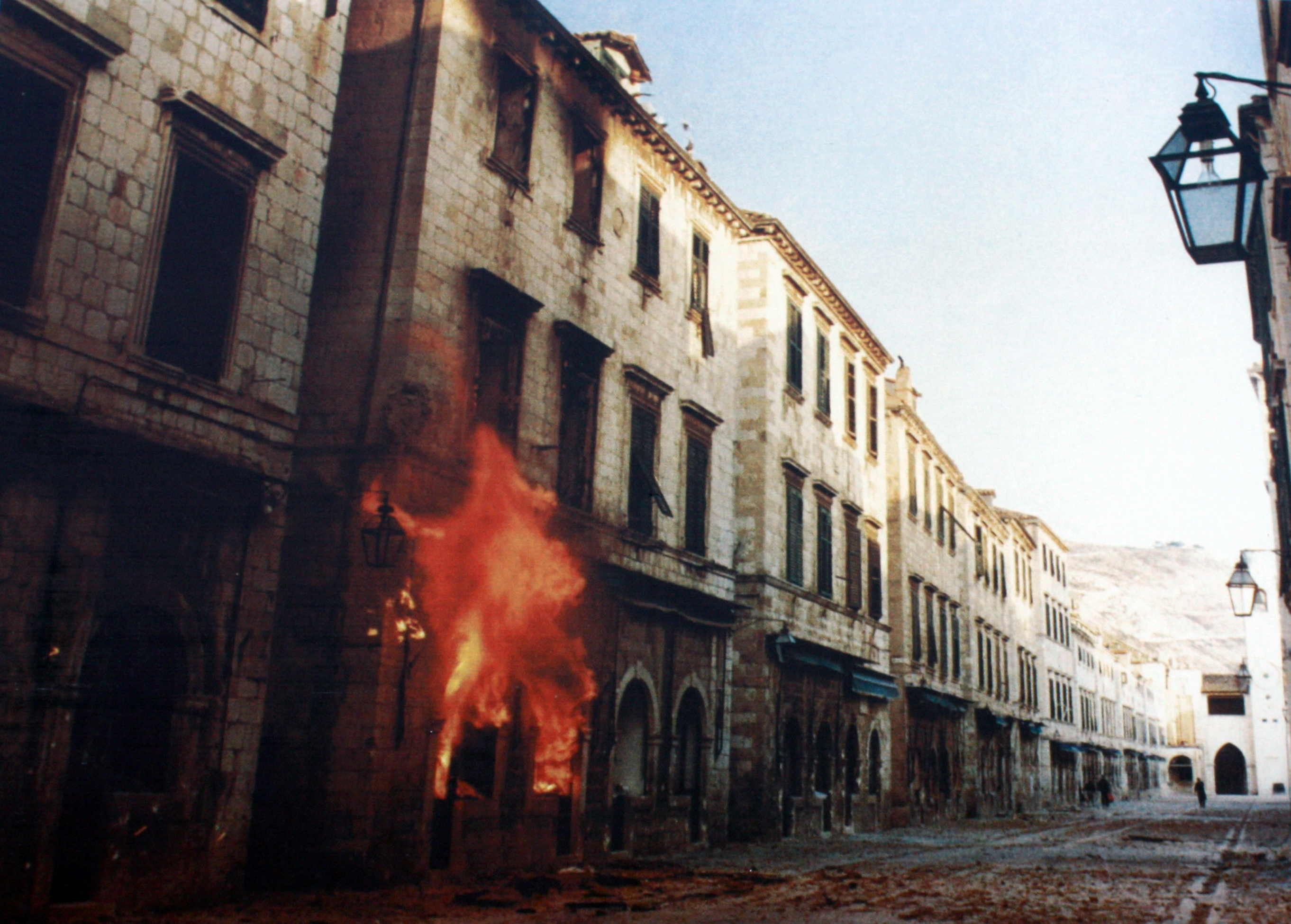 Museum of the Homeland war in DubrovnikHrvatski: Muzej Domovinskog rata u Dubrovniku